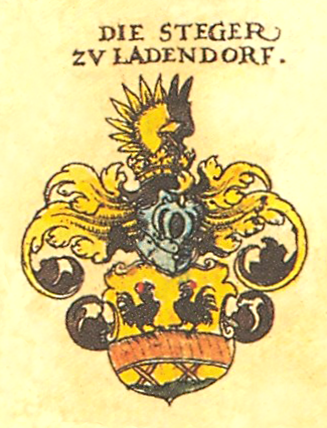 Coats of Arms of Steger von Ladendorf